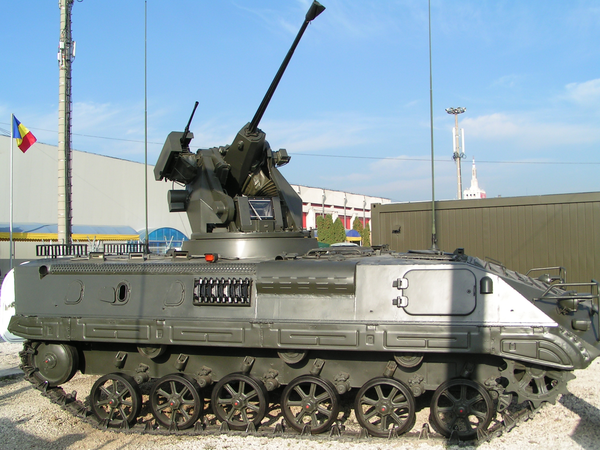 MLVM (Masina de lupta a vanatorilor de munte) mountain combat vehicle fitted with a Rafel OWS-25R overhead weapon station, Expomil 2005.